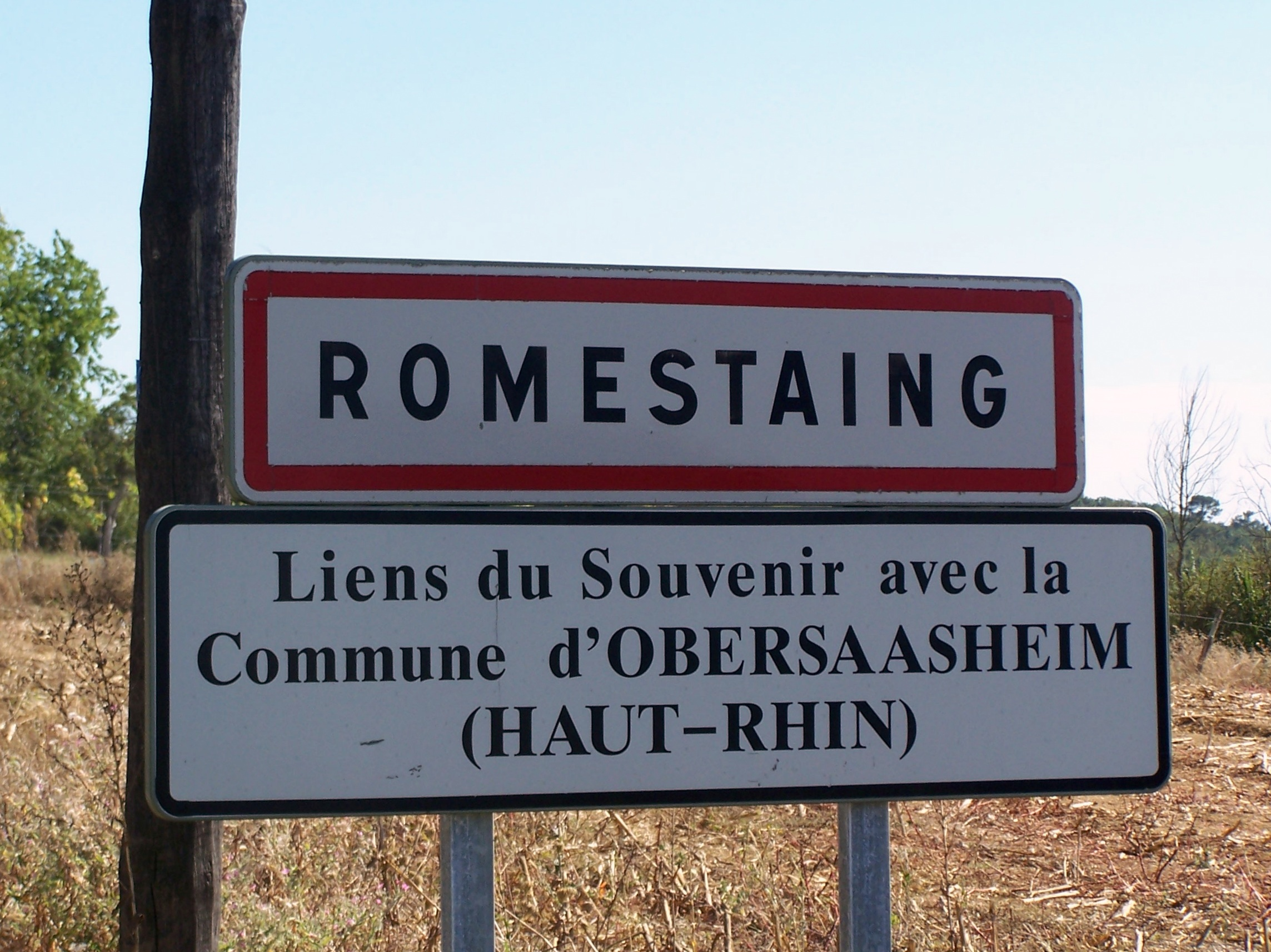 West entrance in Romestaing (Lot-et-Garonne, France)